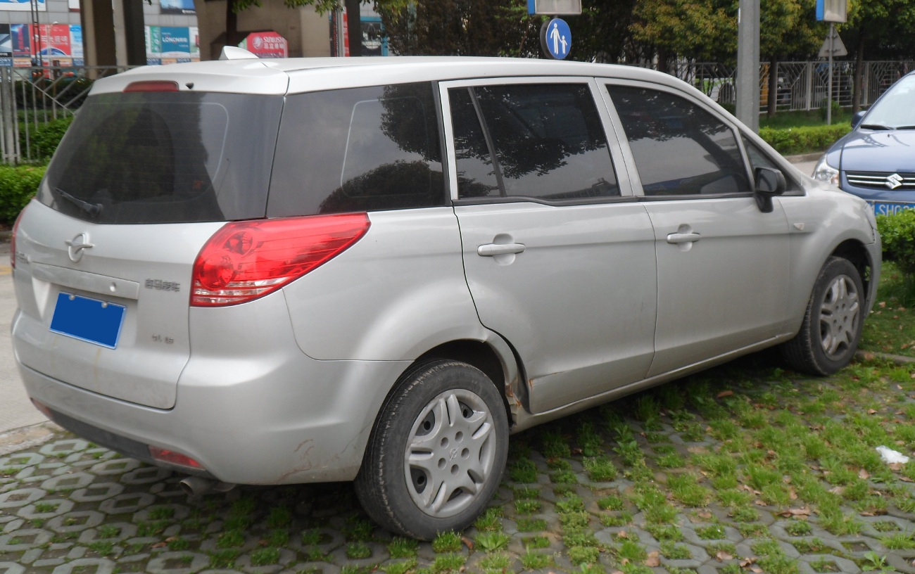 Haima Freema II photographed in Shanghai, China.